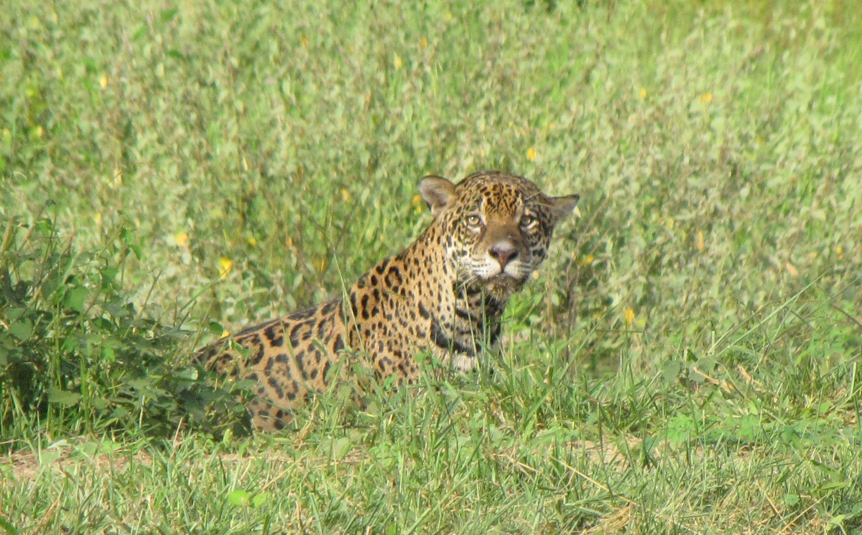 Exemplo de predador de topo